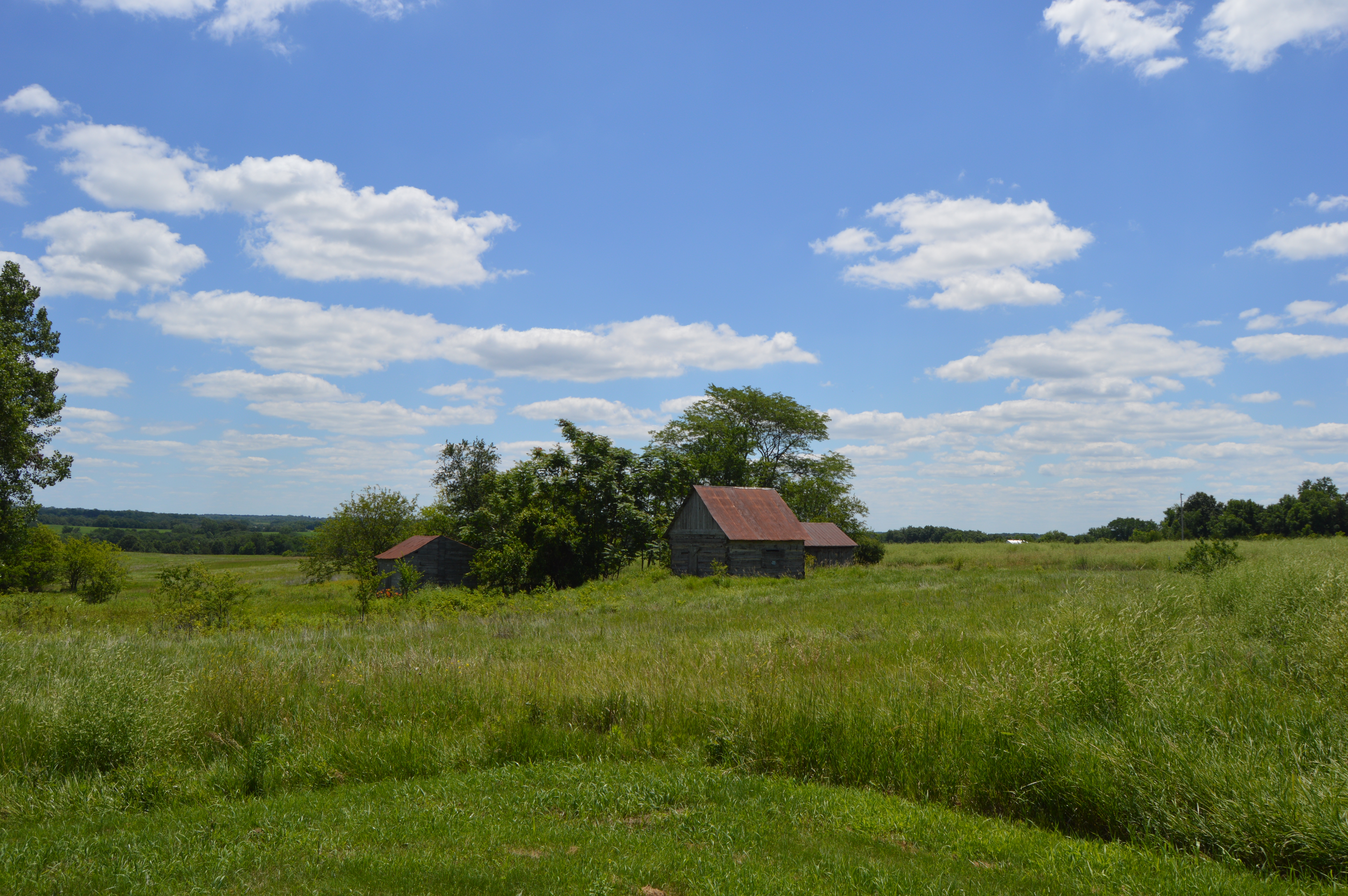 Overview of the former village of New Philadelphia, Illinois, United States. The village site is a significant archaeological site and has been designated a National Historic Landmark.